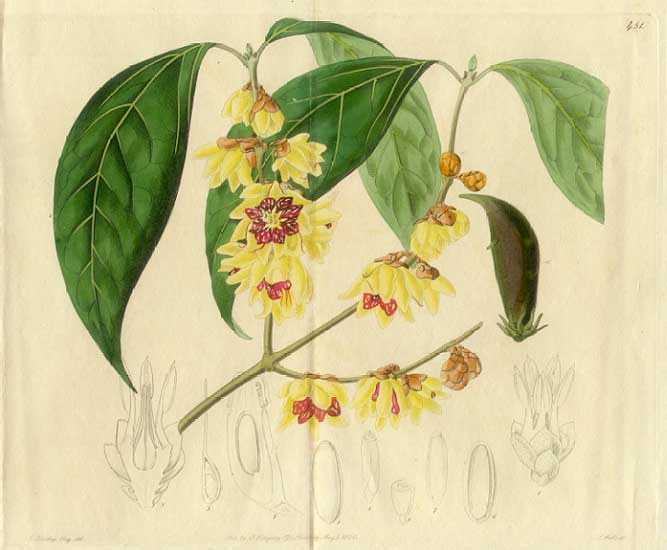 Copper plate engraving with superb original hand color entitled Japan All Spice, Plate 451, original size 205mm x 250mm (8" x 10"), Japanese allspice, originally identified as Calycanthus praecox now called Chimonanthus praecox